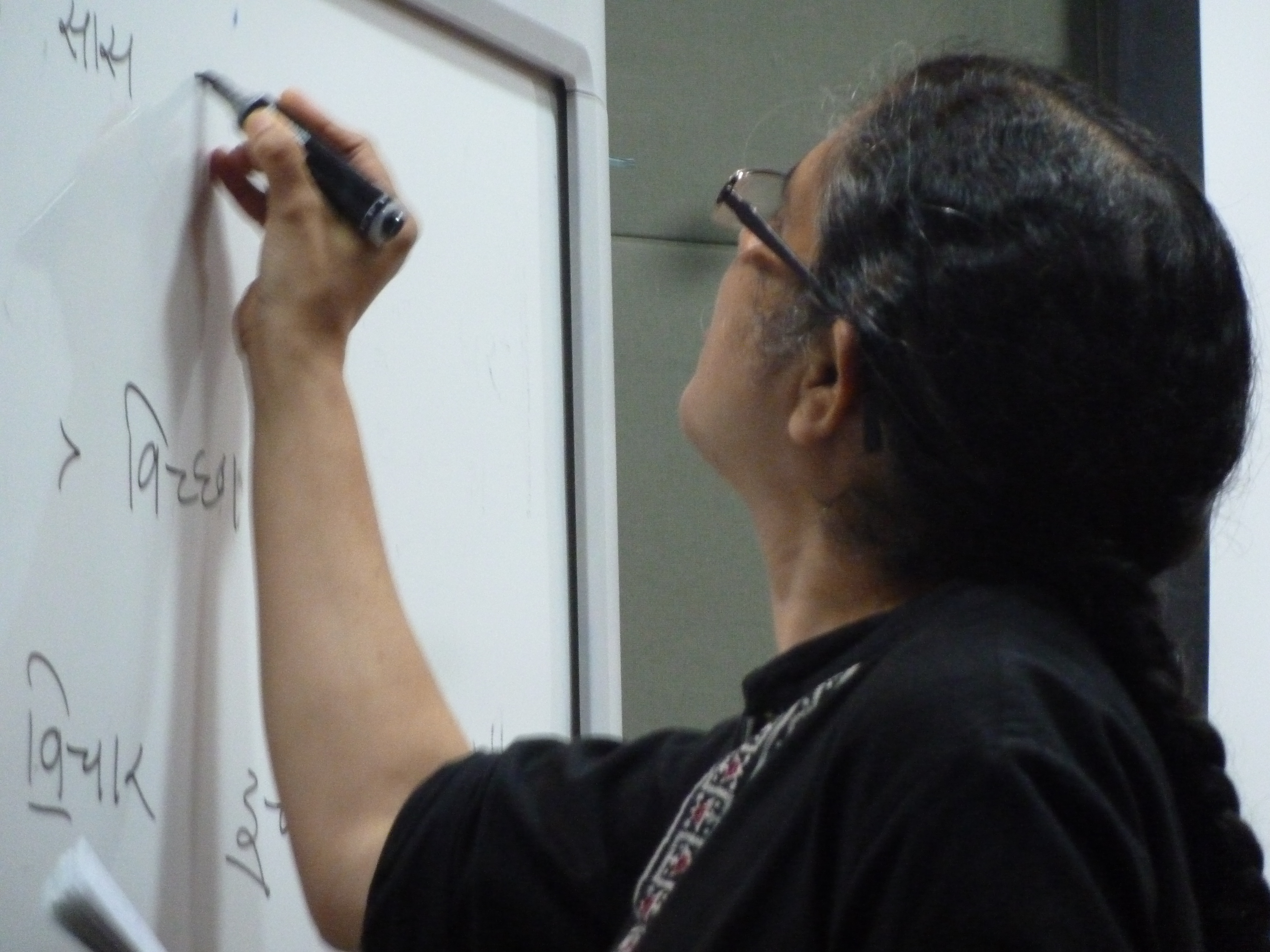 Madhavi Sardessai, former professor Goa University (1962-2015)